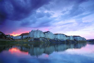 The Upper Missouri River National Monument in Montana. Photo by Bureau of Land Management.